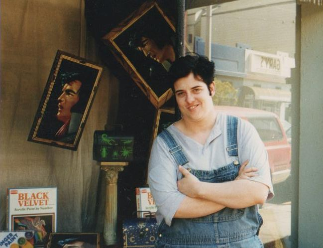 Leigh Crow, aka Elvis Herselvis, photographed at Accoutrements on Haight Street, San Francisco, in 1994